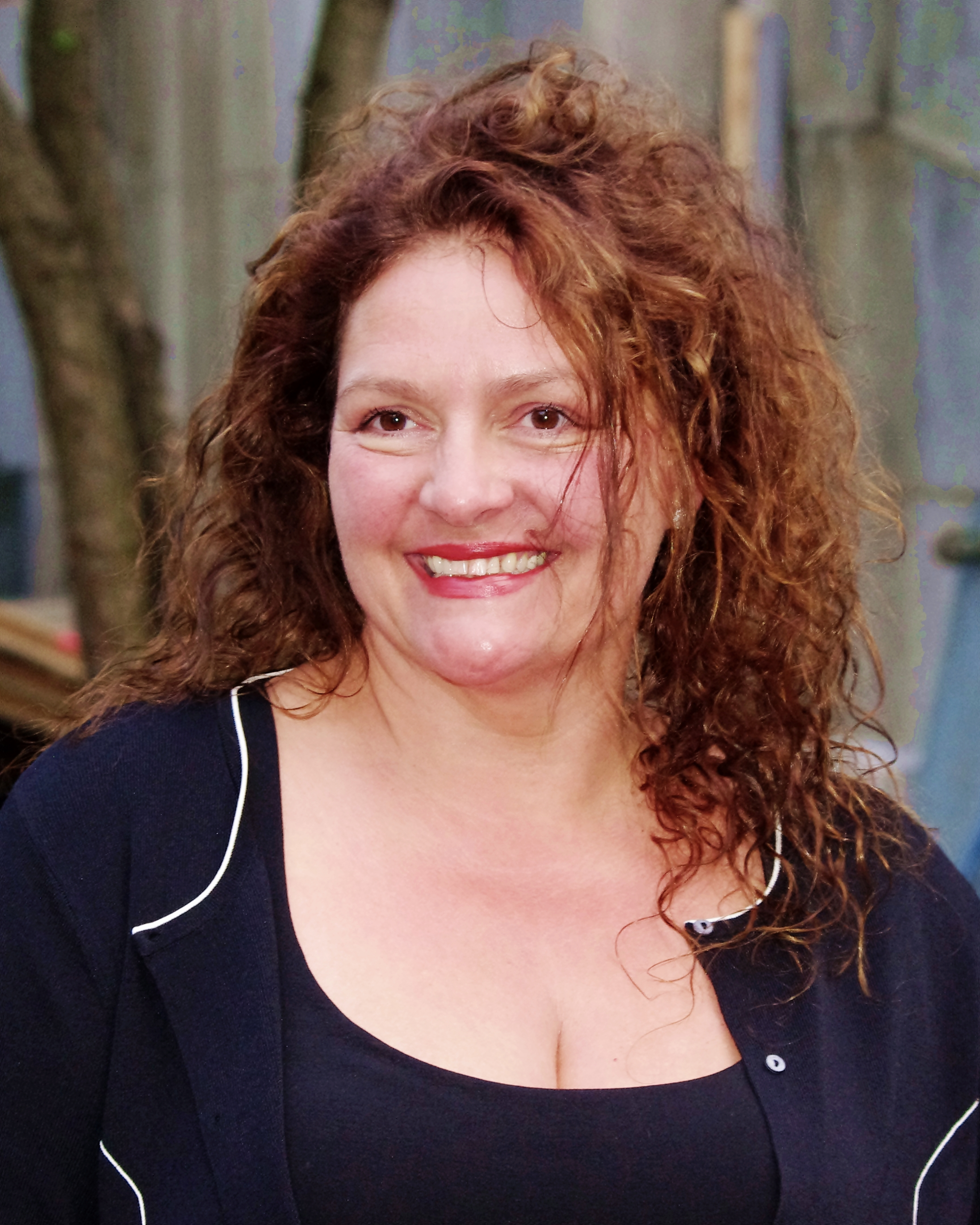 Aida Turturro at the Vanity Fair party for the 2012 Tribeca Film Festival.